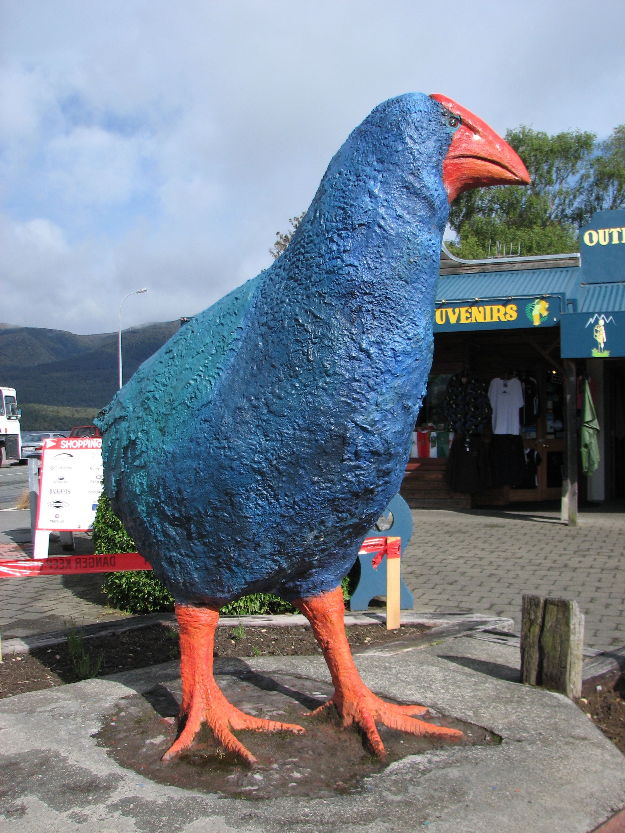 A sculpture of a Takahe bird in Te Anau, New Zealand.